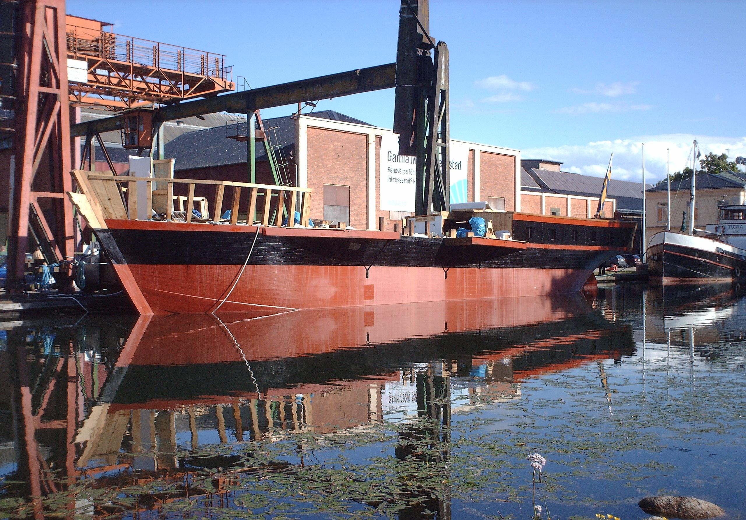 Eric Nordevall II, Motala, Sweden.